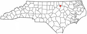 Category:North Carolina Dot Maps